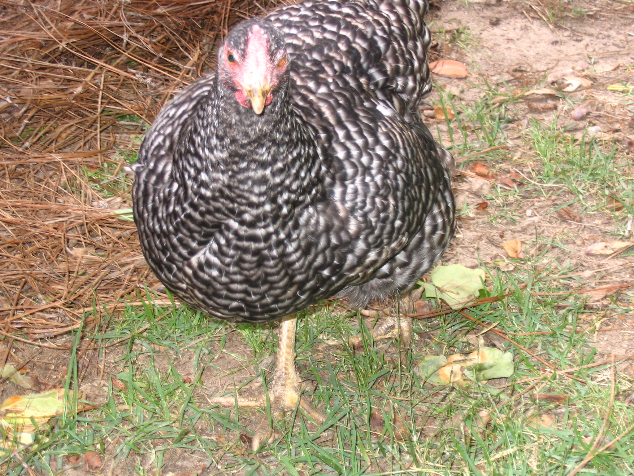 A picture of a Free-Range Dominique. I took this picture in my back yard, her name is Stella. Uploaded for the Purpose of adding a picture to the profile of Dominiques.